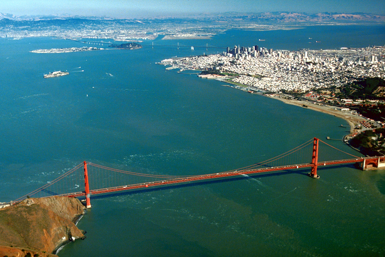 Aerial view of the Golden Gate and the central portion of San Francisco Bay. The Golden Gate bridge is in the foreground and the Bay Bridge is in the distance. The city of San Francisco is to the right with Alcatraz Island in the middle of the bay at left center. Oakland lies across the bay in the far distance. Coordinates: 37°49′35.76″N 122°25′20.54″W / 37.8266°N 122.4223722°W